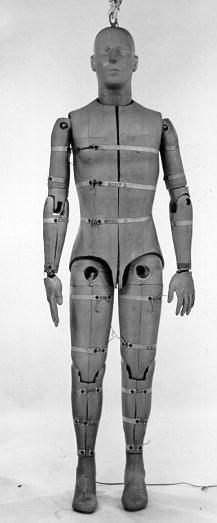 Sierra Sam Full permission granted to use. See The "Sierra Sam" Story for photo context.